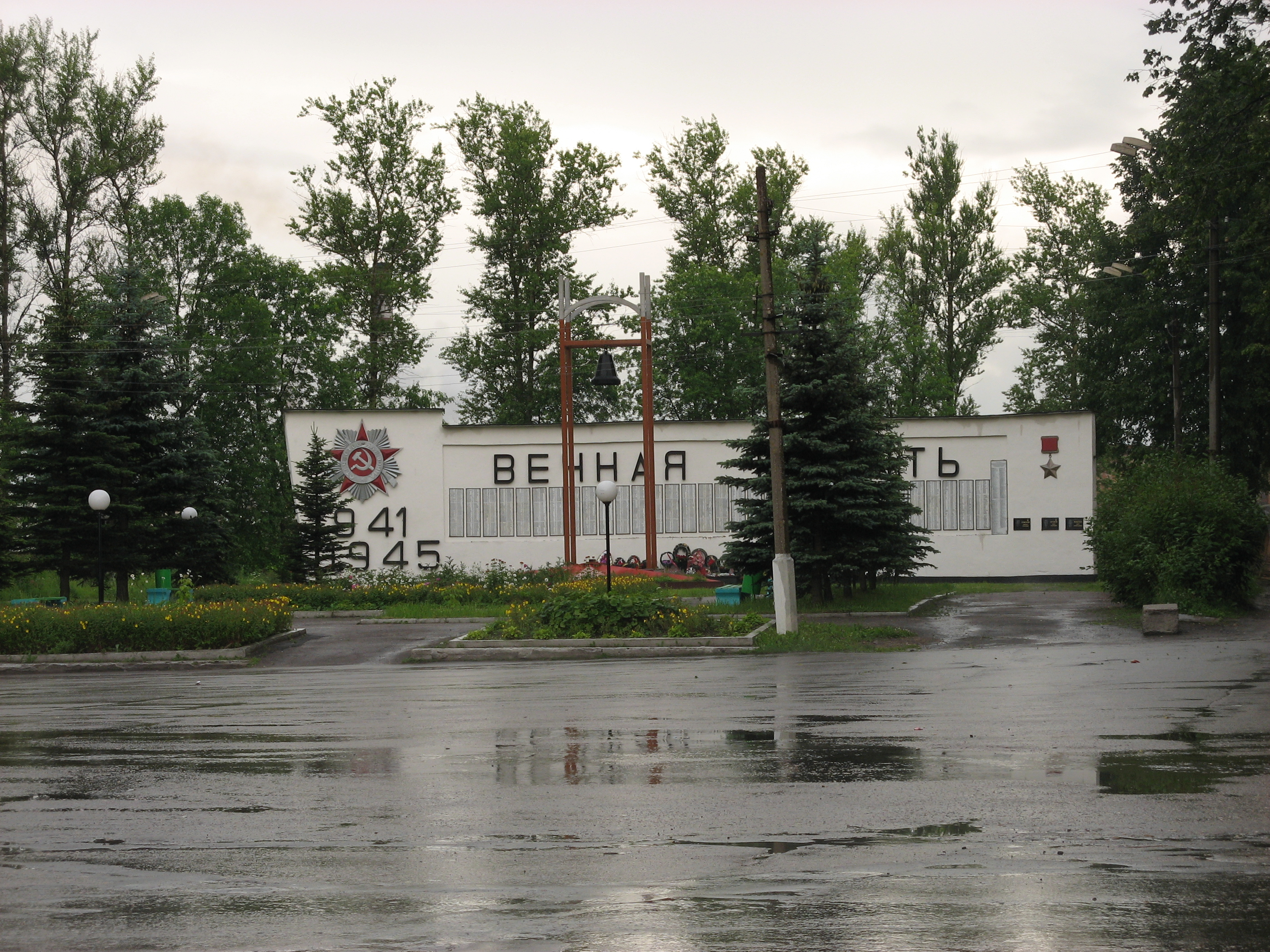 Memorial.